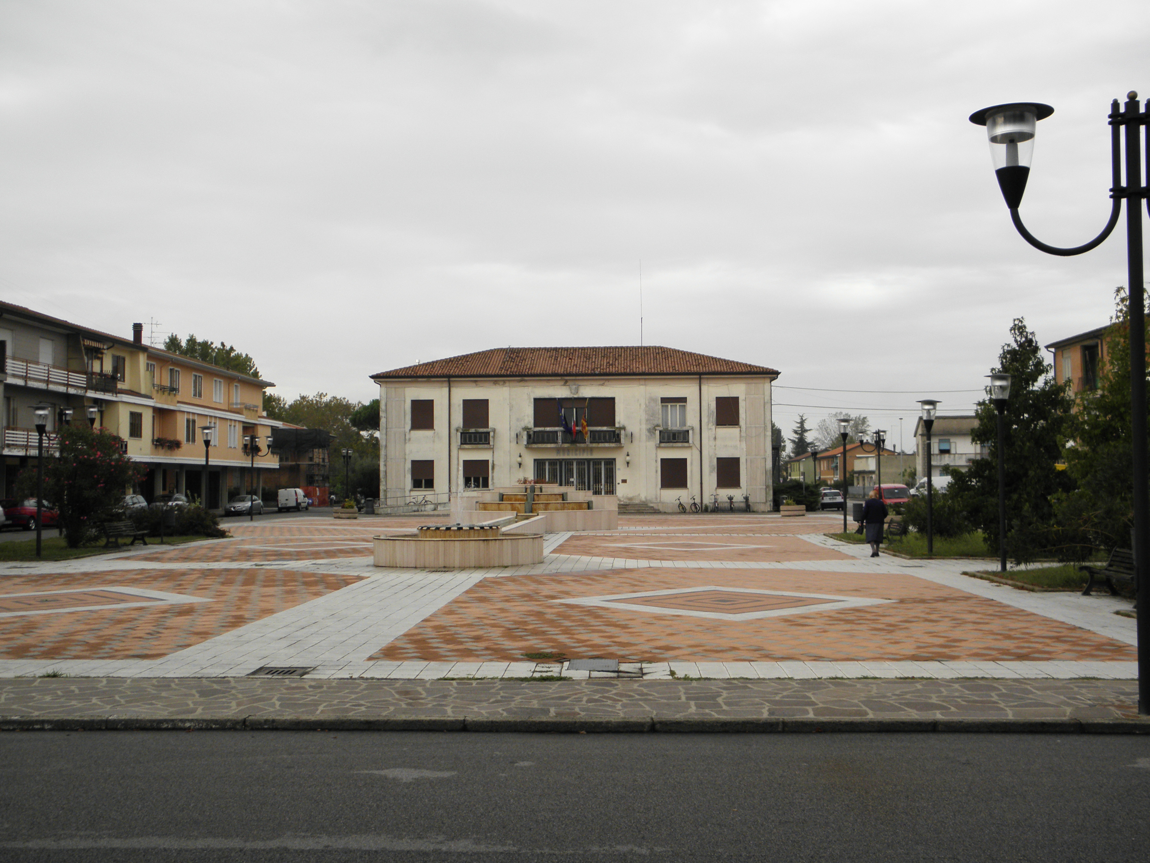 Papozze Municipal House, province of Rovigo.